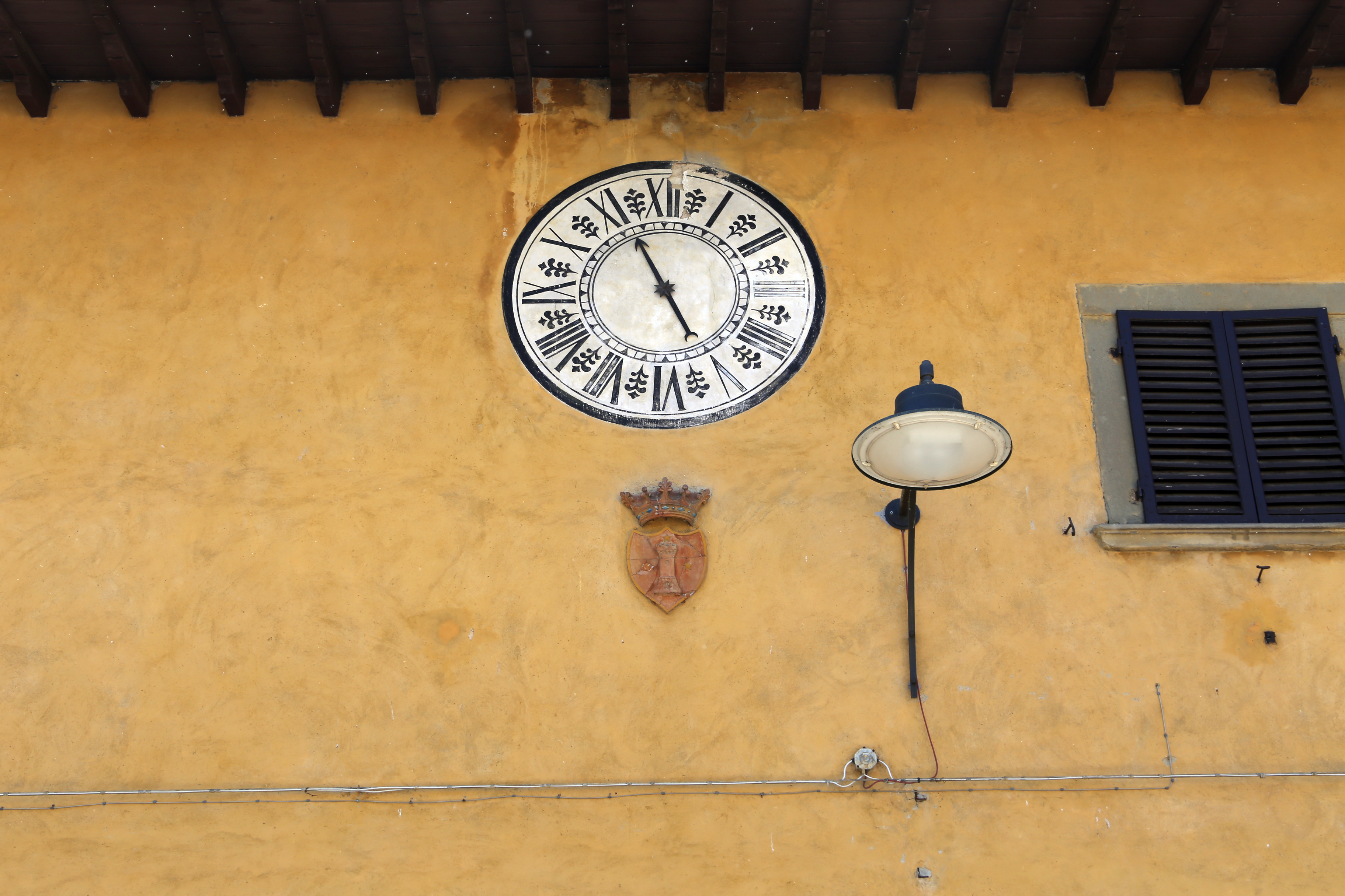 Vico d'Elsa (Barberino Val d'Elsa)